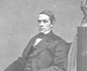 David Heaton, US Representative from North Carolina